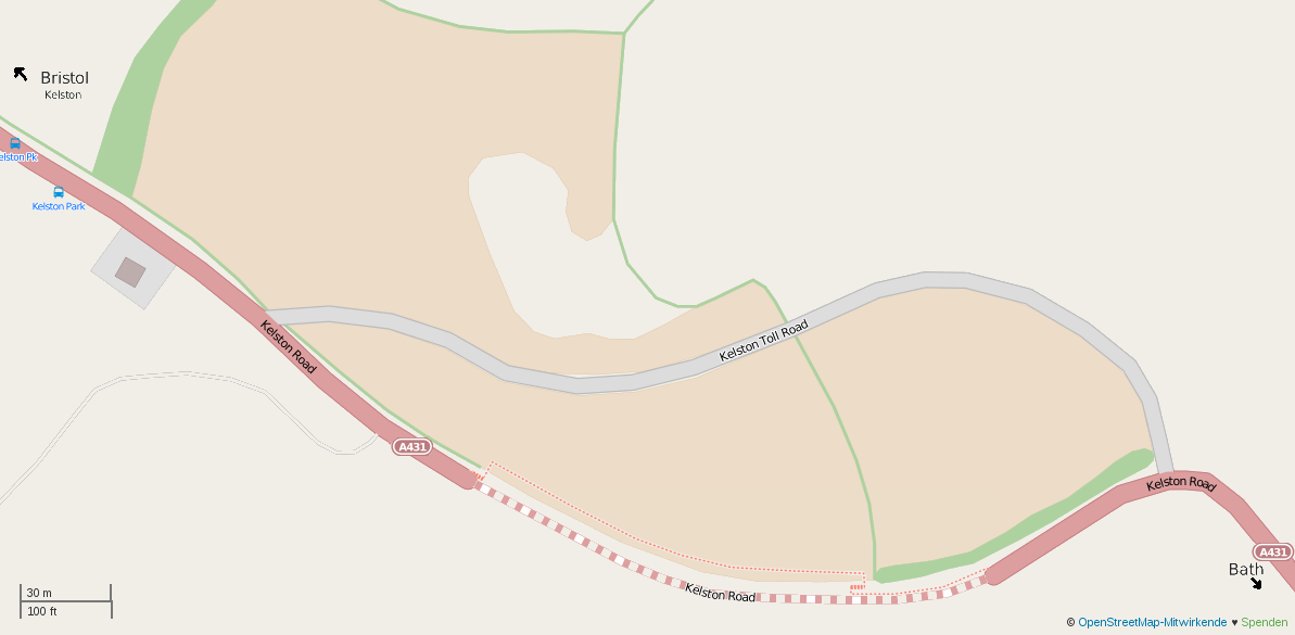 OpenstreetMap Copy of Kelston Toll Road taken on 9 November 2014. Minor edits: Added labels. This image was created due to a future decommissioning is very likely.